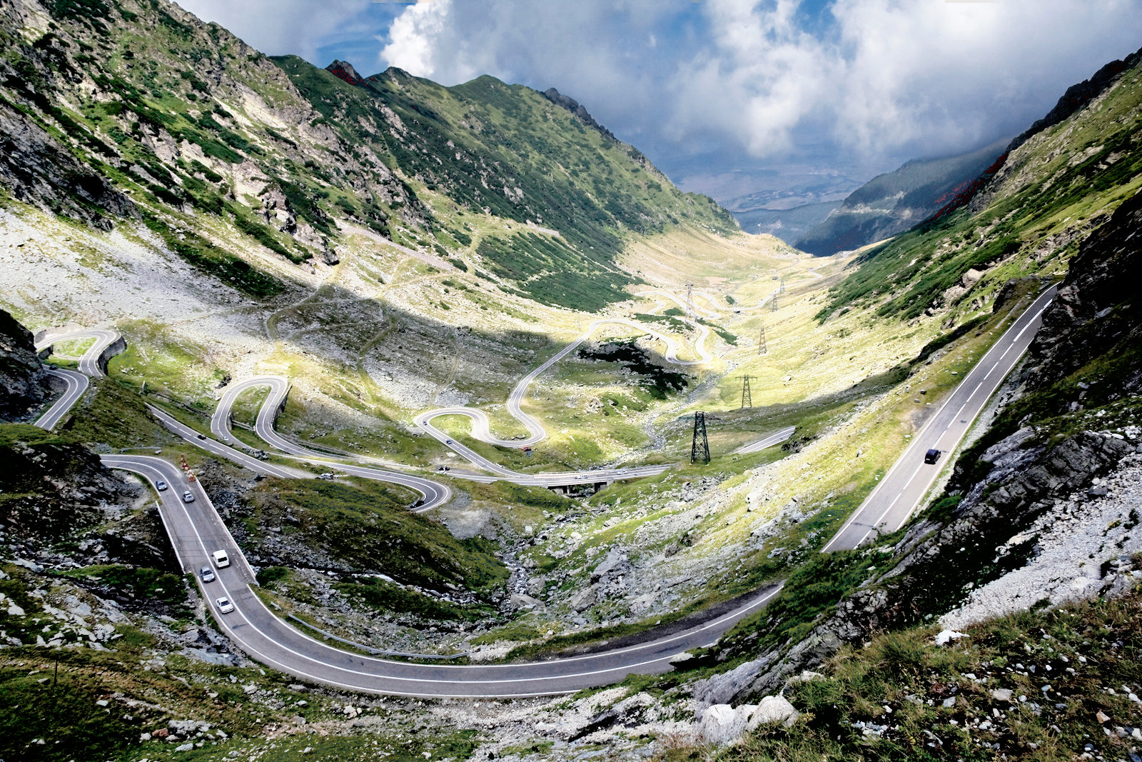 Taken a few meters down from Balea Lake, on the northern part of the road. It shows the curvy lanes going down through the glacier's valley. Luckily the clouds were on their way to Sibiu so the view was clear. A section from what Top Gear called the greatest road in the world.